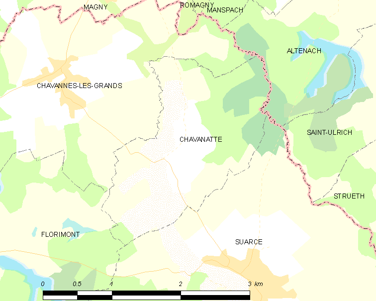 Map of French municipality Chavanatte